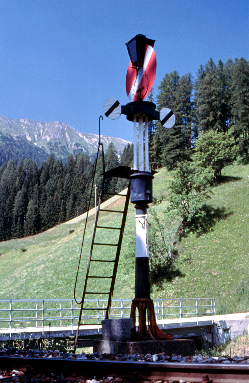 Home signal (replaced) Glaris Station RhB, from direction Frauenkirch.